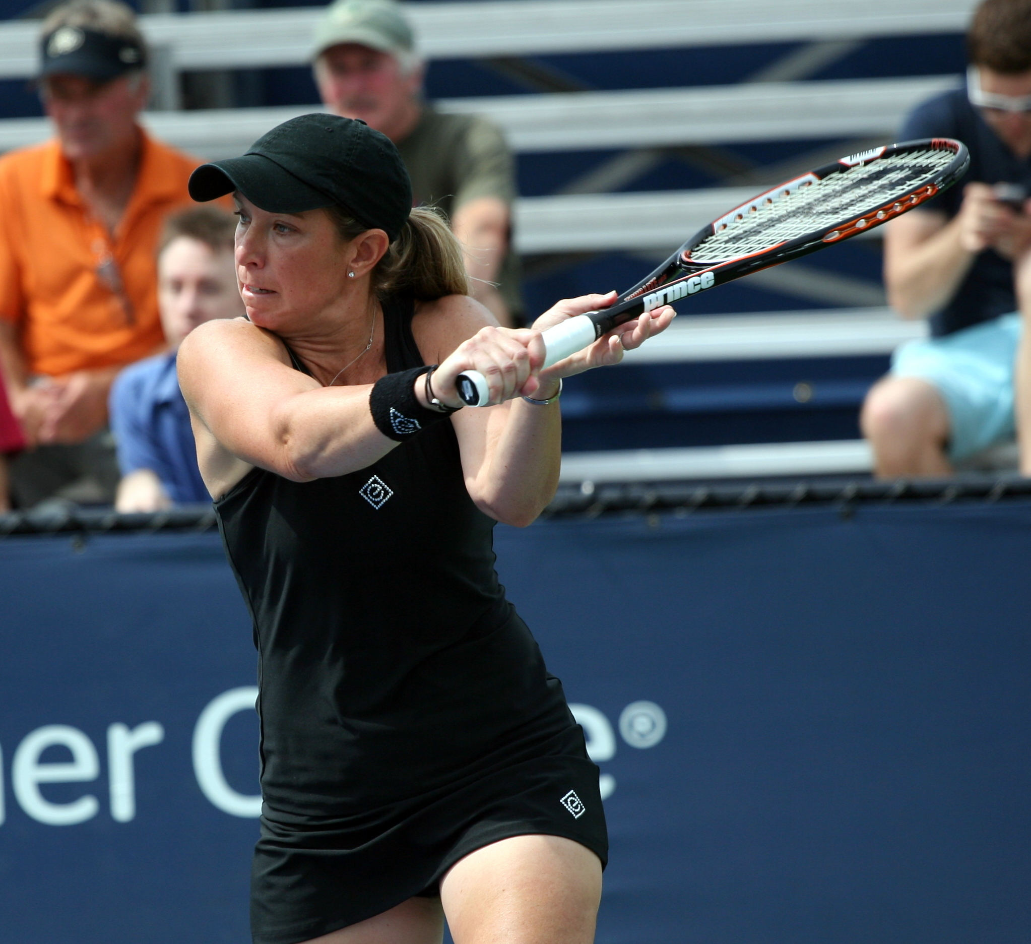 Lisa Raymond at the 2013 US Open, on Friday August 30, 2013